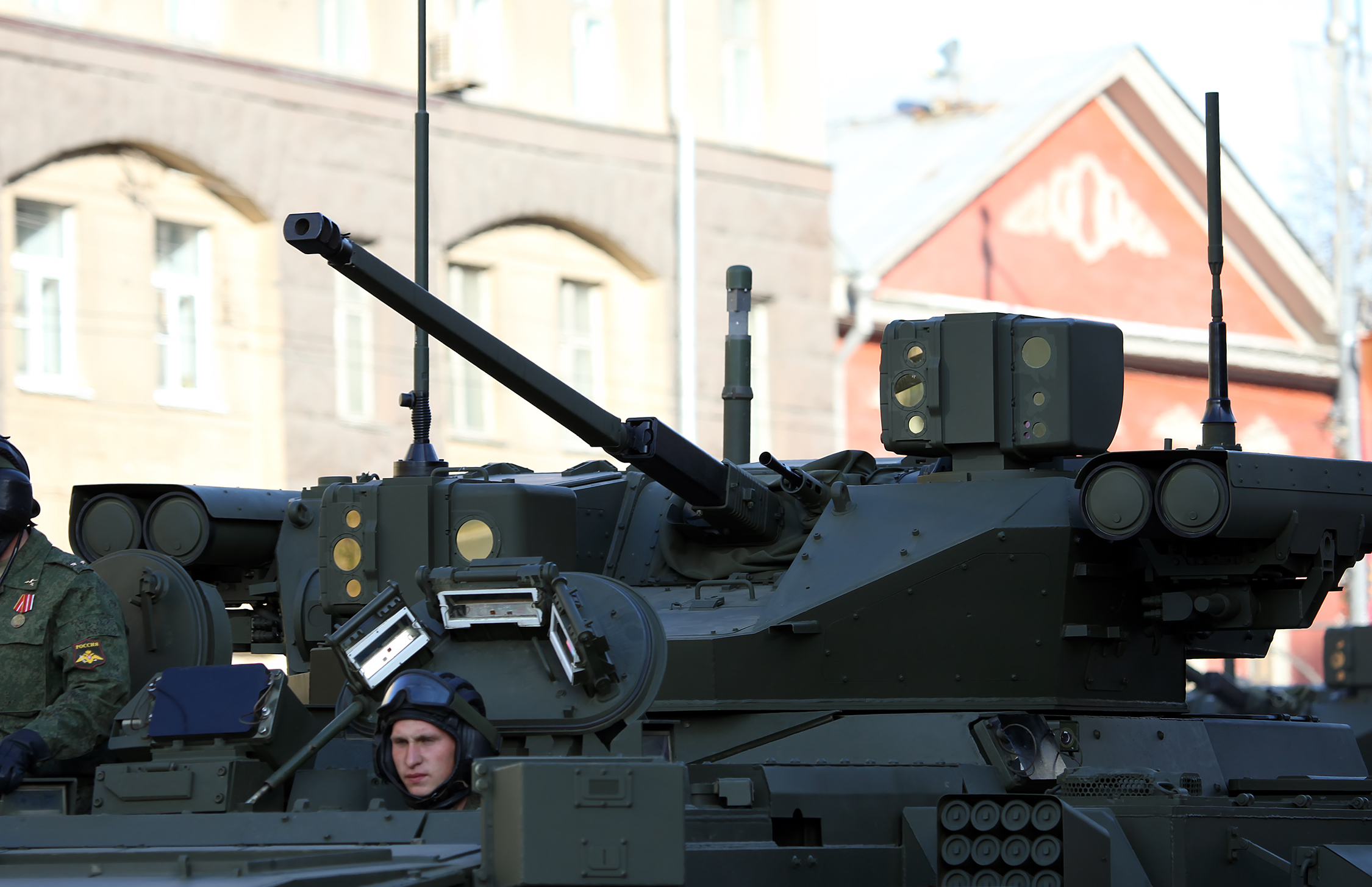 Heavy IFV T-15 object 149 Armata (in the streets of Moscow on the way to or from the Red Square)